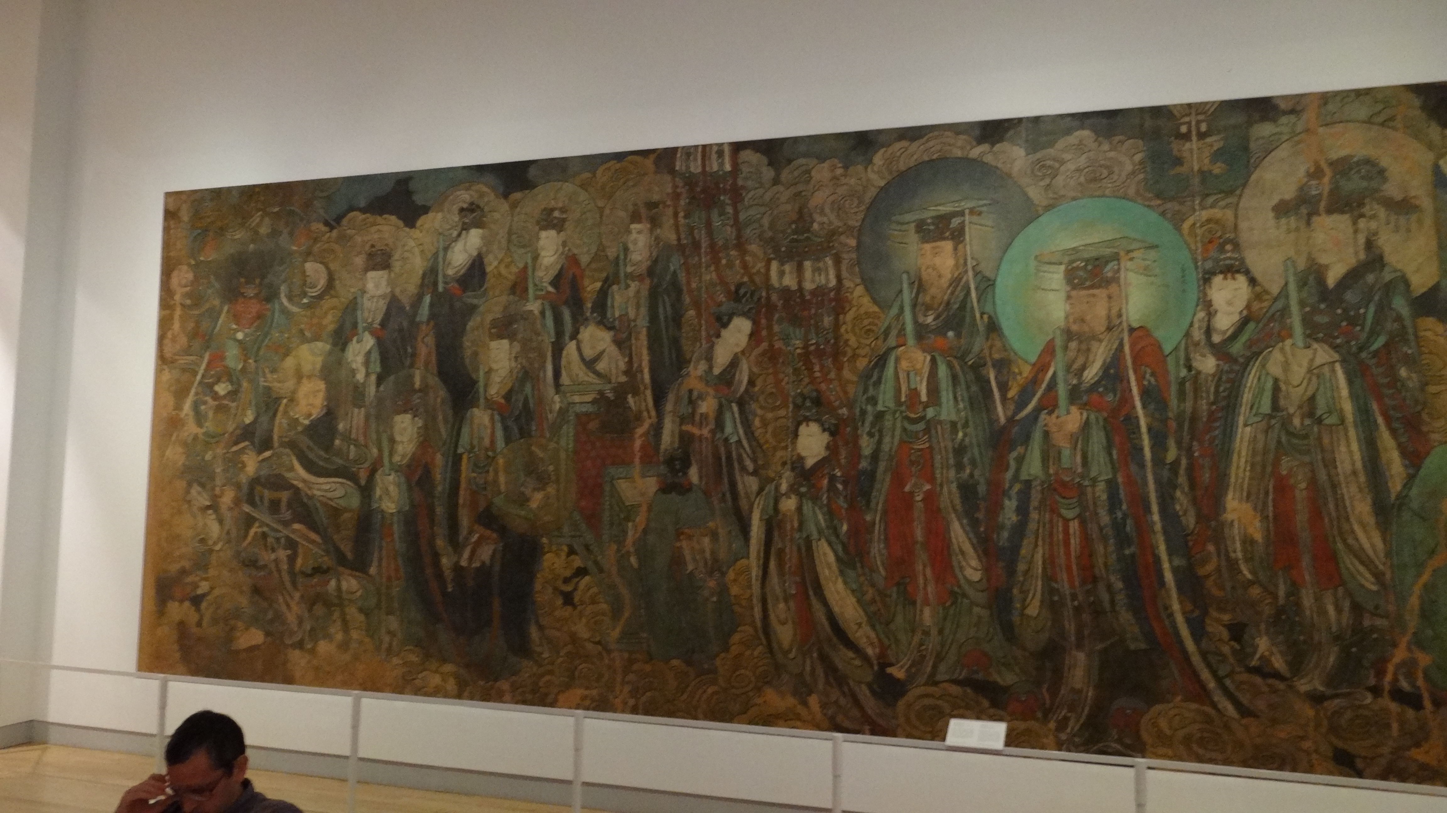 painted mural panel